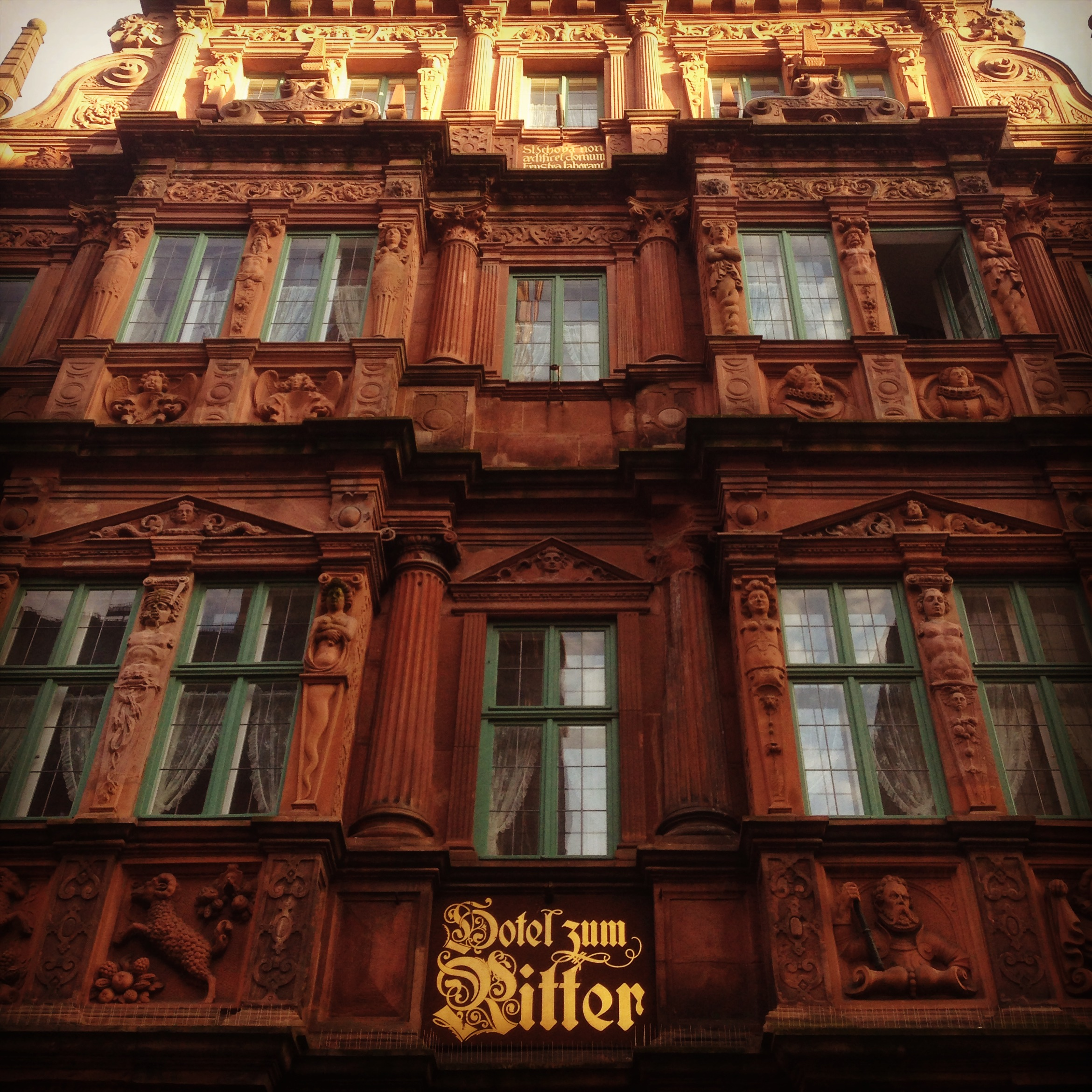 Hauptstraße 178, 69117 Heidelberg, Germany